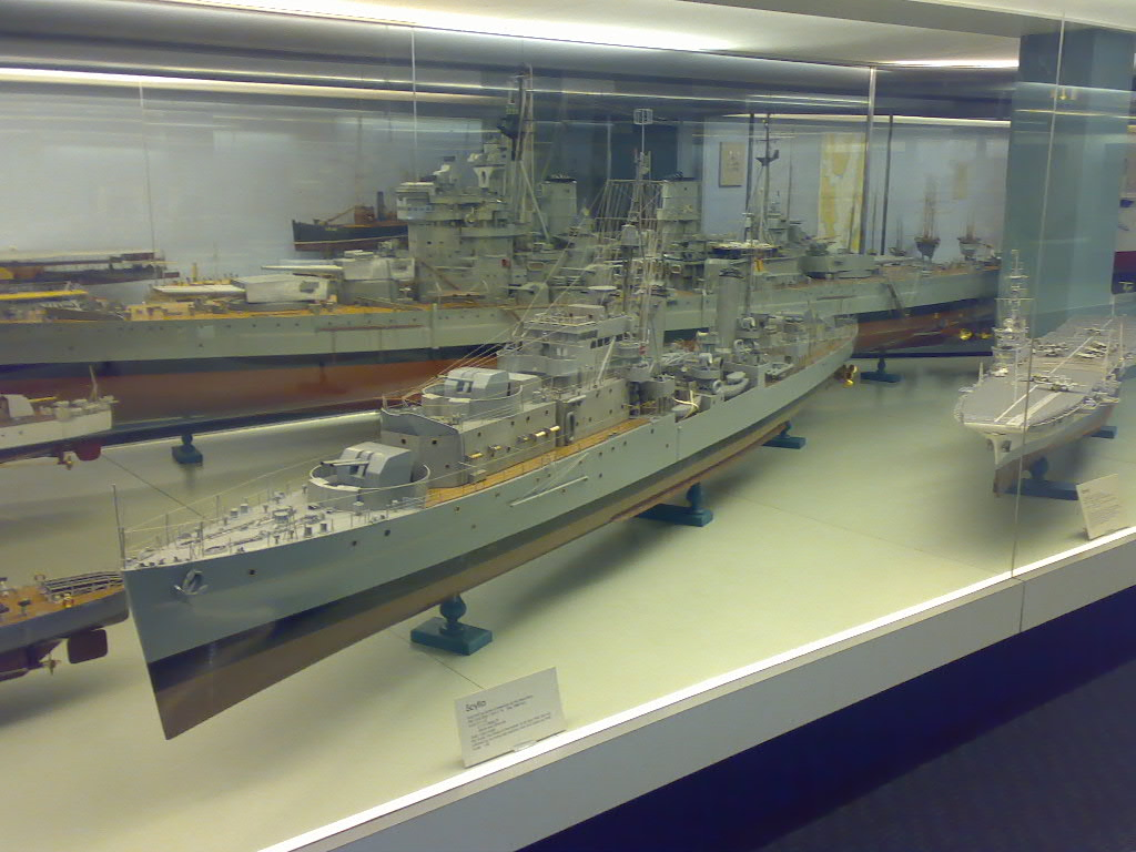 Model of British light cruiser HMS Scylla at the Glasgow Museum of Transport